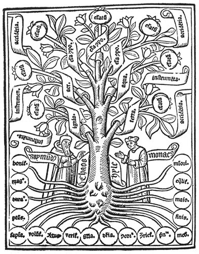 Classificatory philosophical tree of Lully (Ramon Llull)